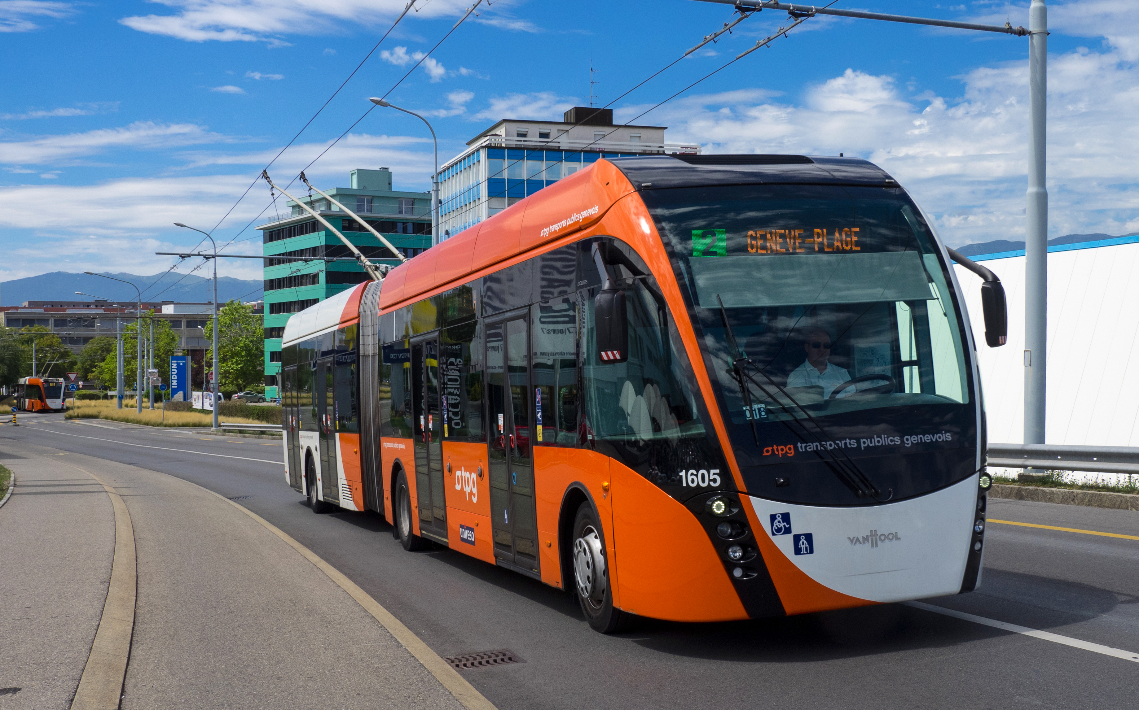 Geneva trolleybus 1605, a Van Hool ExquiCity 18, on route 2 near Gérard-de-Ternier